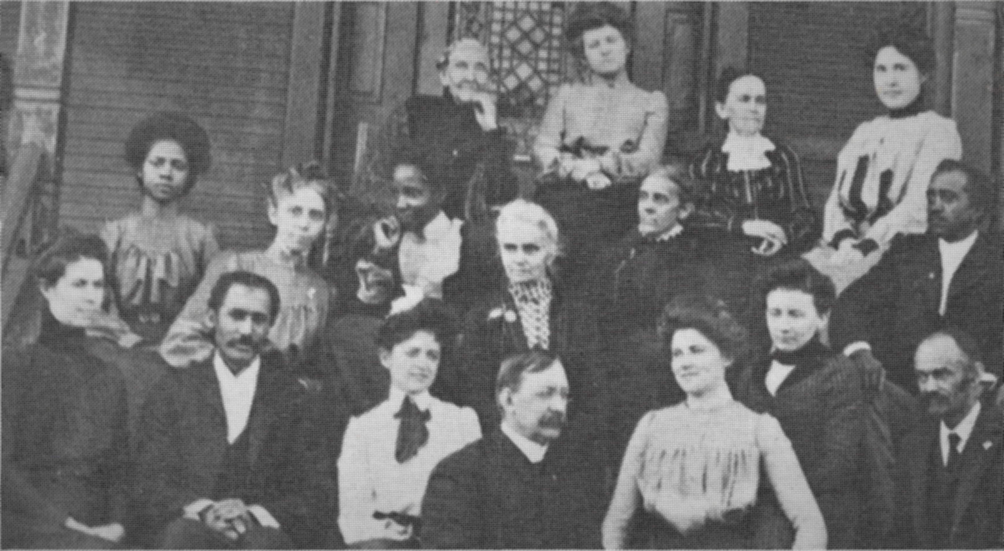 Some of the first faculty members of Morristown College from the early 1900's.